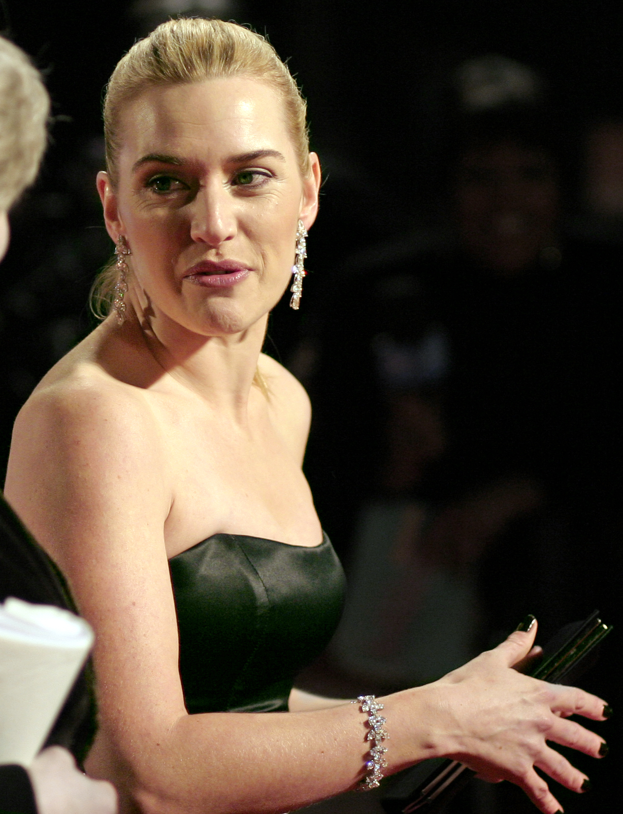 Kate Winslet at the BAFTAs at the Royal Opera House in London